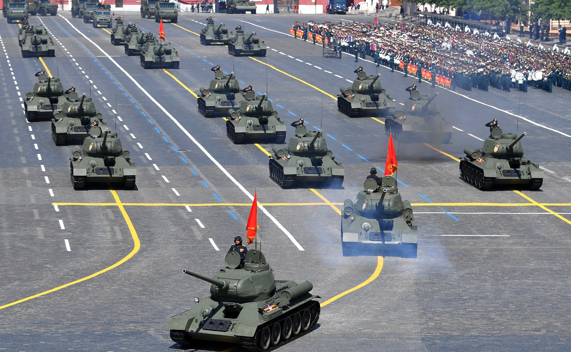 2020 Moscow Victory Day Parade Аҧсшәа: Военный парад на Красной площади в Москве 24 июня 2020 года